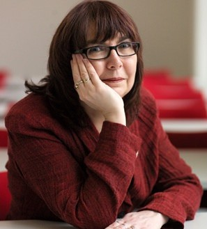 by Rob Whitrow, reproduced under a CC-BY-SA license with permission from Rob Whitrow